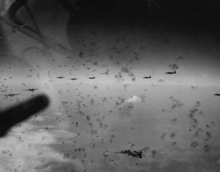 B-17 Flying Fortress bombers flying through dense flak. Captions in English works: A very famous view of the formation flying through a field of flak. Believed to be at Merseberg, Germany [sic][1]